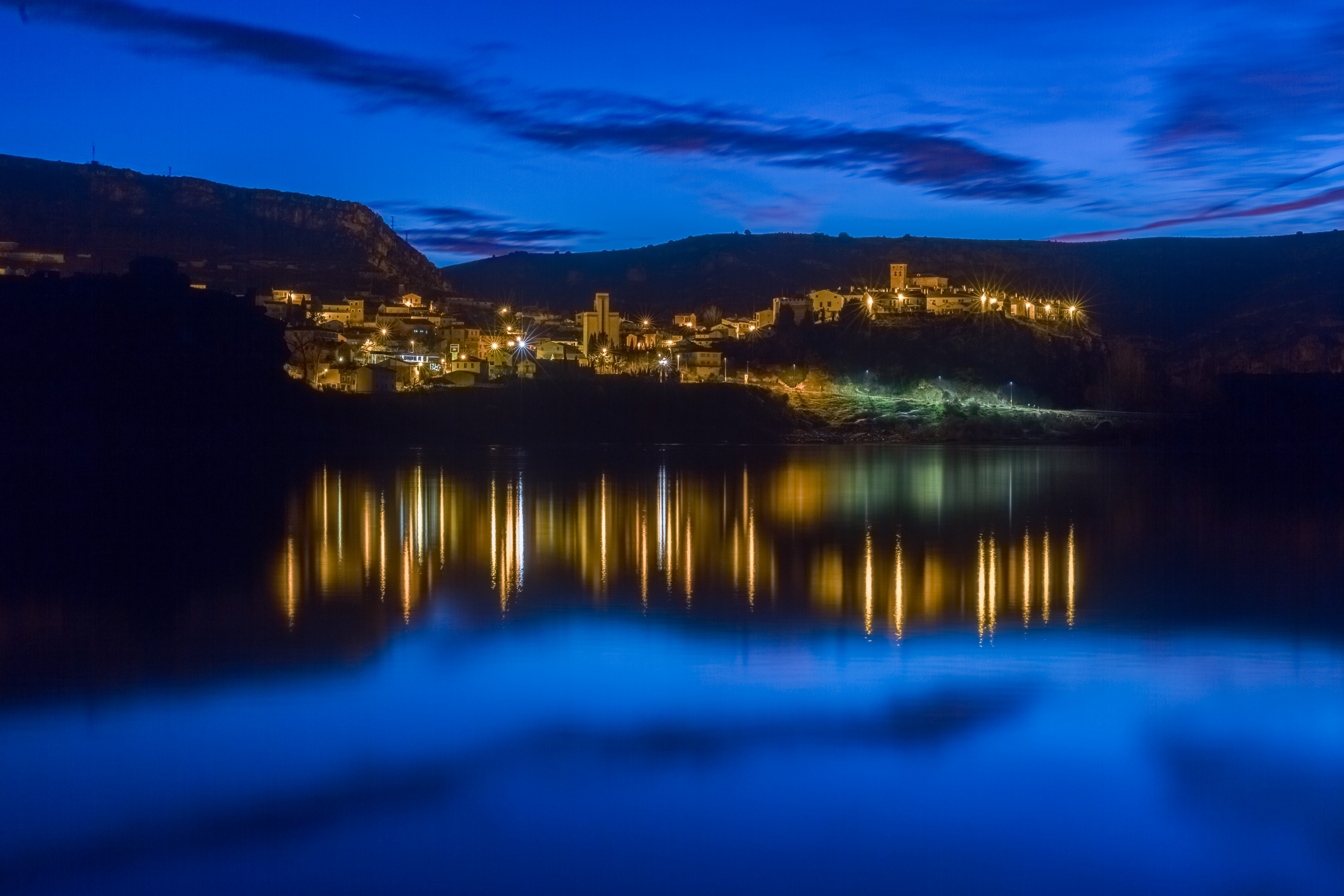 View of Nuévalos, Zaragoza, Spain